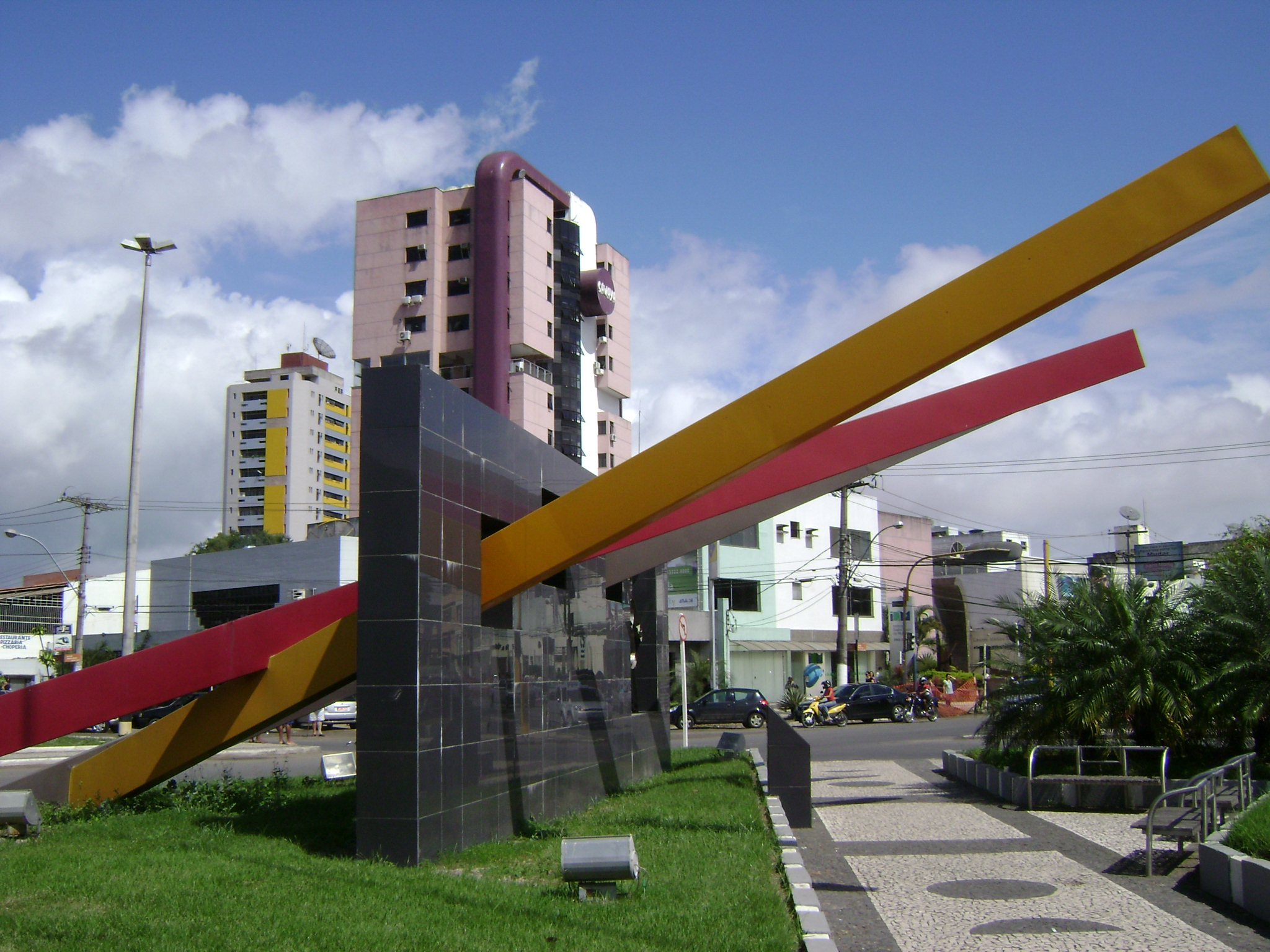 Obra arquitetônica em praça de Feira de Santana, Bahia, Brasil.